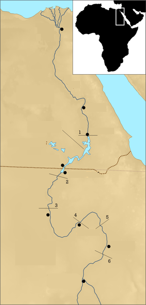 Blank map of Nubia